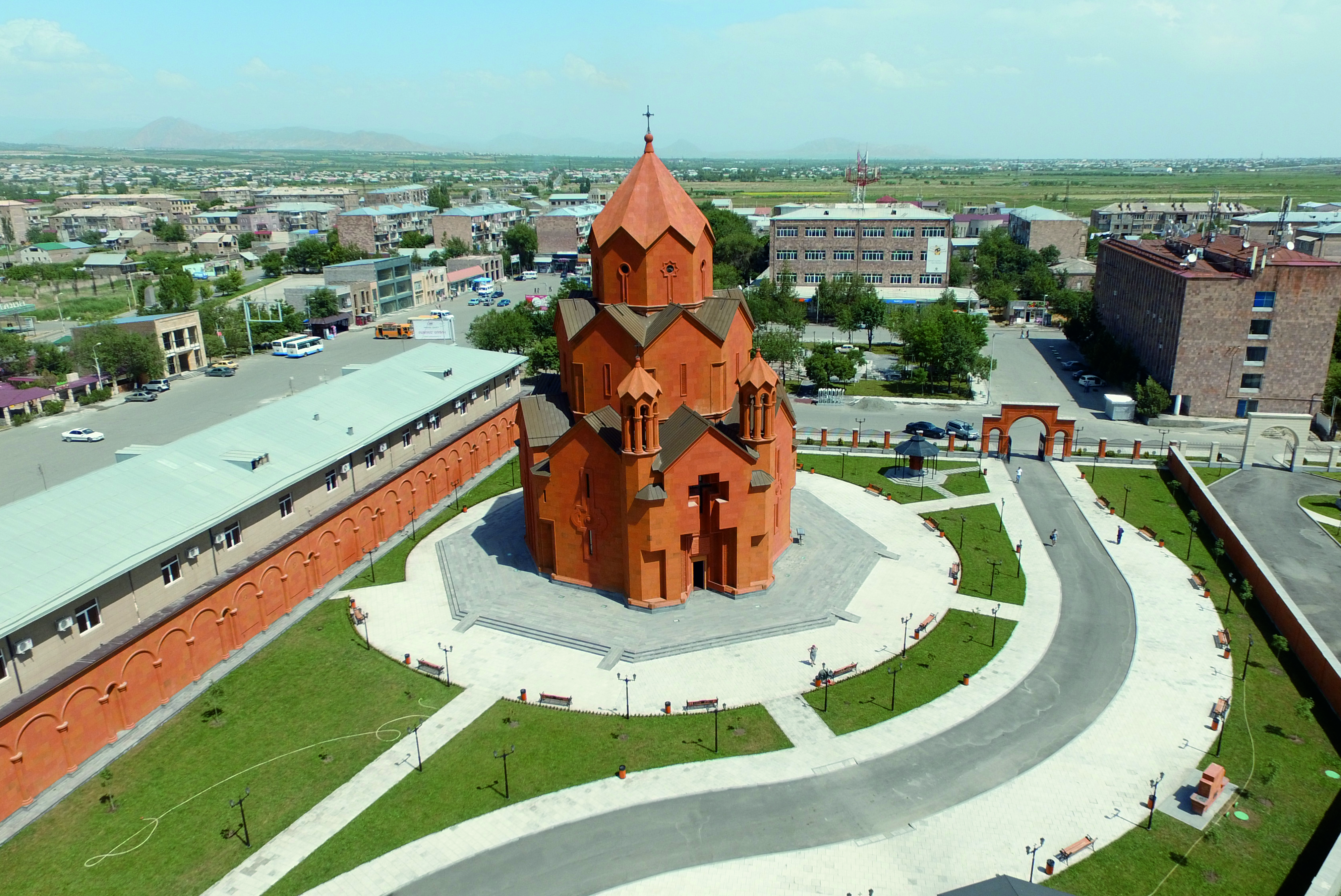 Saint Tadeos new church in Masis